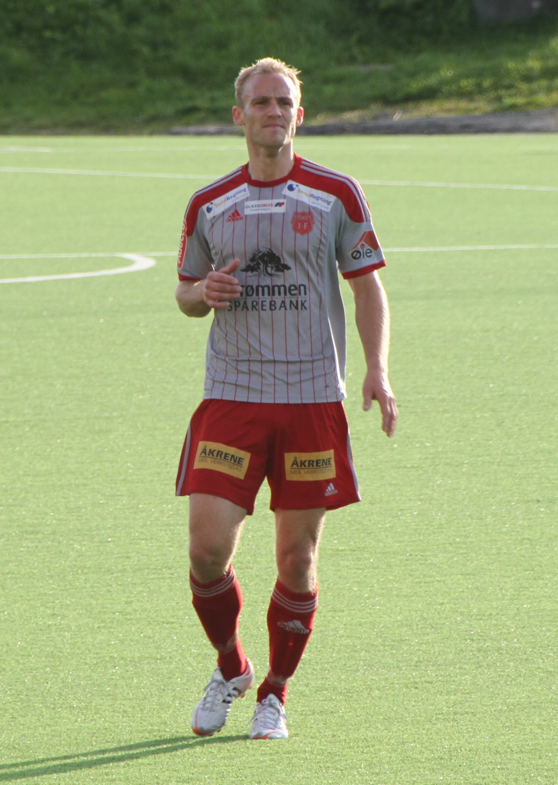 Strømmen IF player, at Strømmen stadium, Akershus, Norway